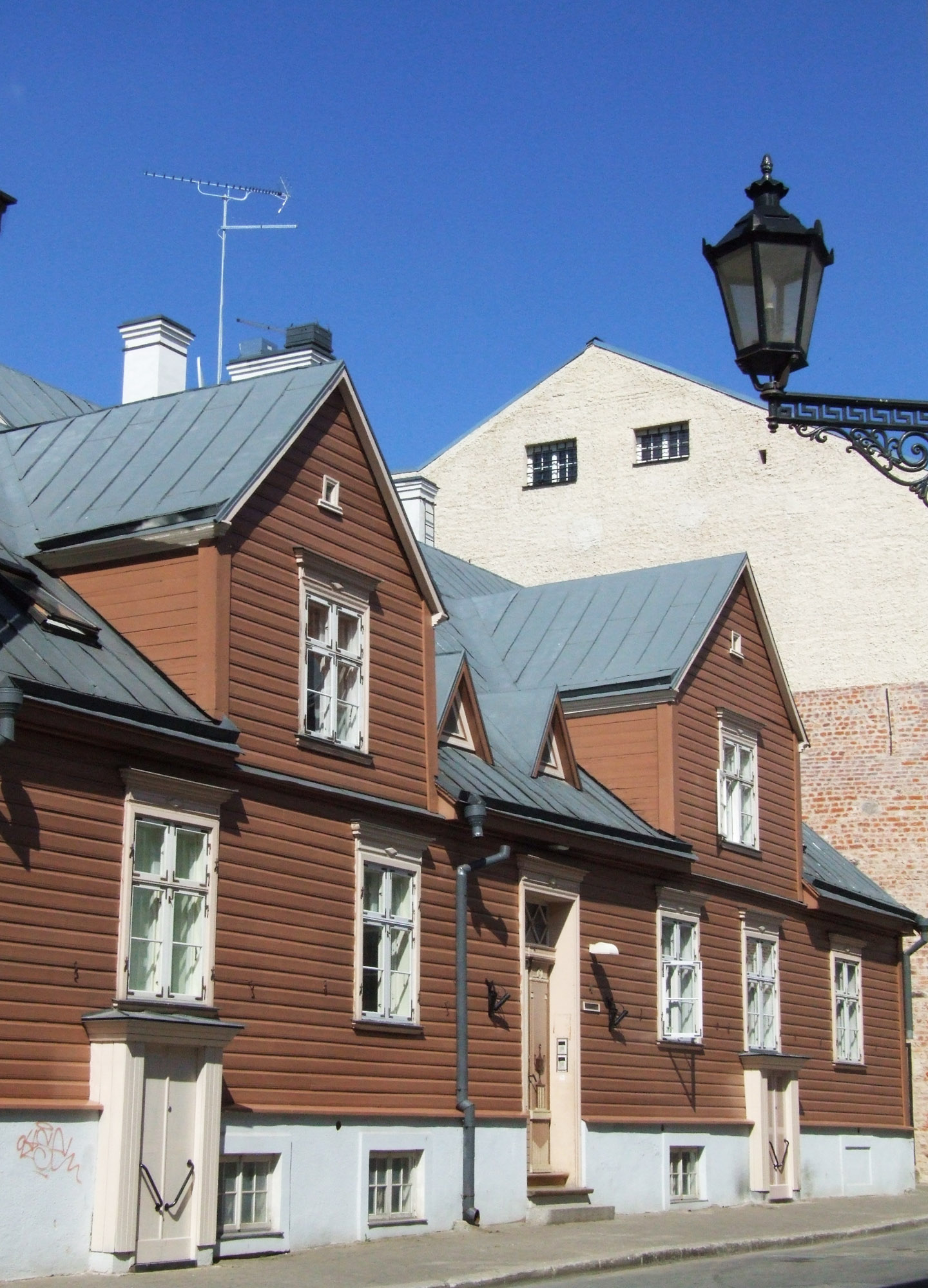 Tampere Maja in Tartu, Estonia